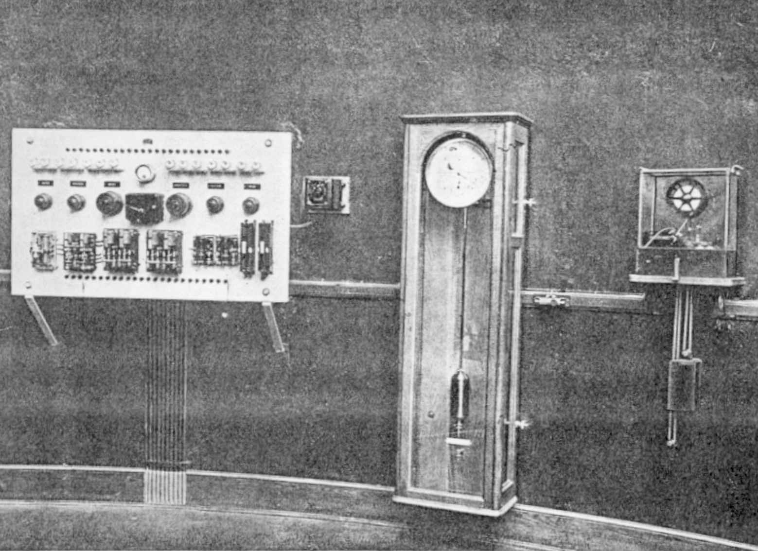 1 meter Zeiss telescope at Merate Astronomical Observatory, Merate (LC), Italy. Electrical. Image shows the master clock system; a precision astronomical regulator clock with an Invar pendulum, wired to a paper tape time signal recorder (right).